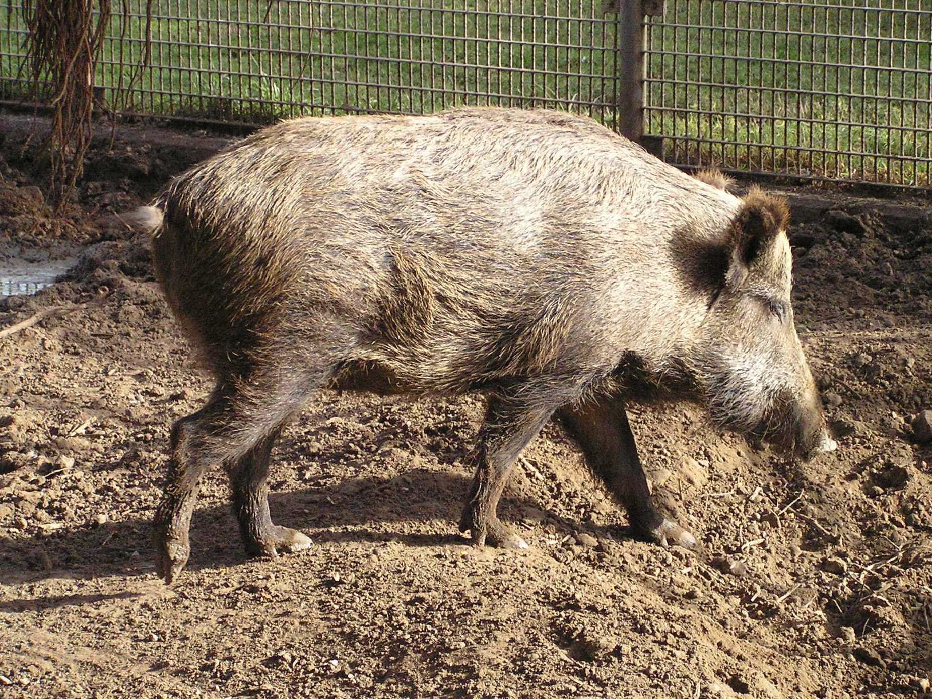 Taken in the Garden for Zoologic Research, Tel Aviv University, Israel.